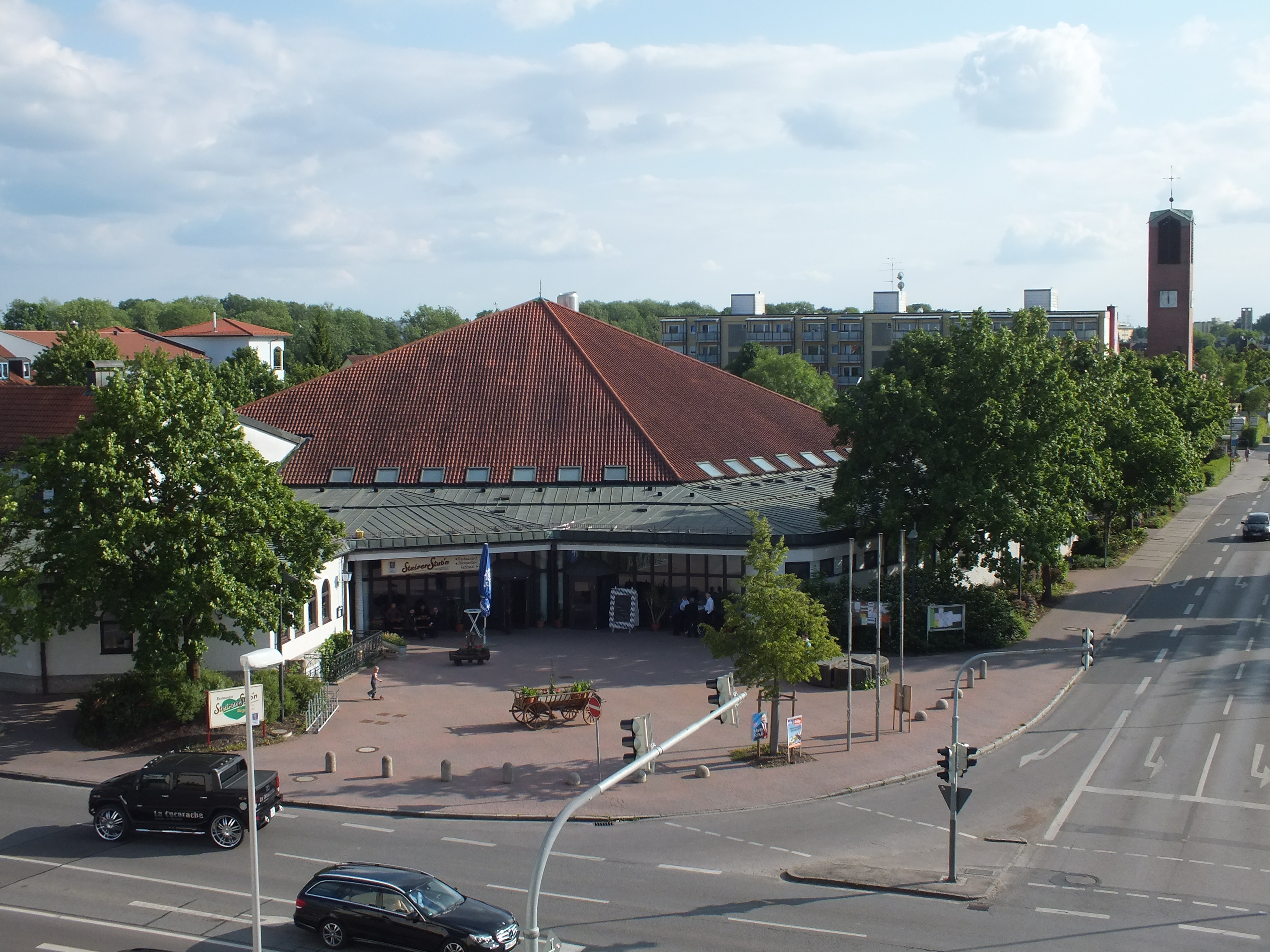 community centre "Bürgerhaus Karlsfeld", built in 1980, located at corner Münchner Straße / Allacher Straße.